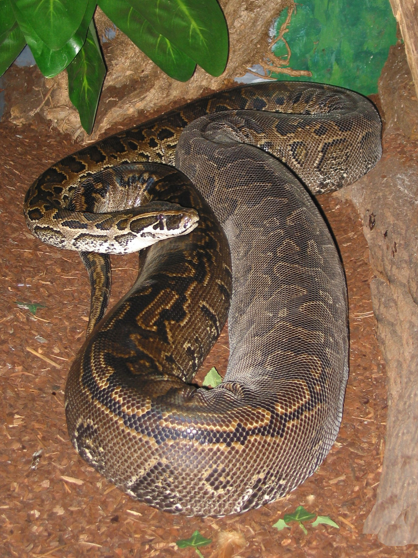 Adult female Northern African Rock Python (Python sebae). This animal lives in captivity. Donated by